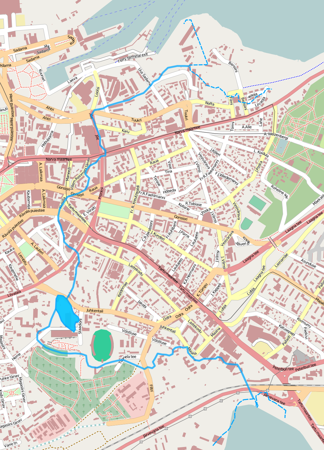 The course of the Härjapea River in Talinn in the end of 19th century shown on a modern map. Course of the river based on Situationsplan der Stadt Reval, 1885 (